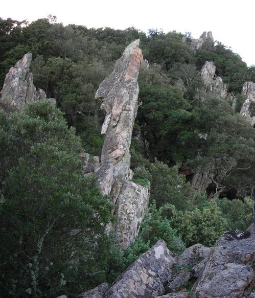 Mount Lattias (Sardinia, Italy). Balanced rocks along the south-east ridge.